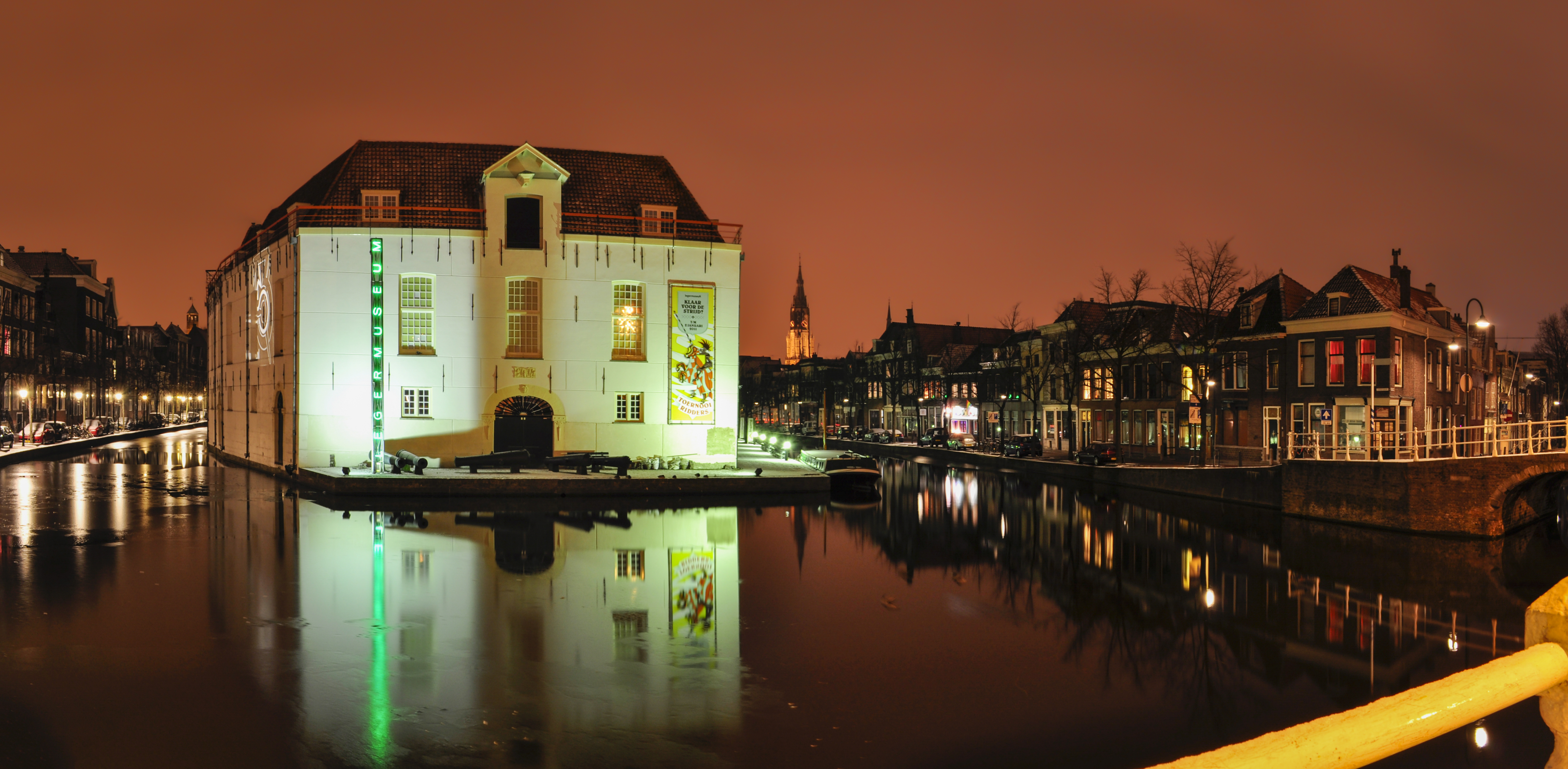 Delft Army Musem (Legermuseum) by night